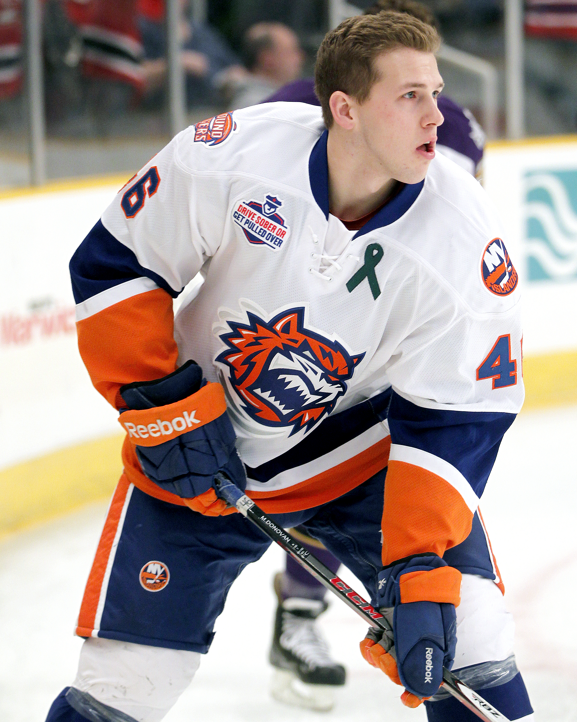 Niederreiter American Hockey League (AHL). 2013 All-Star Skills Competition. Taken on January 27, 2013.